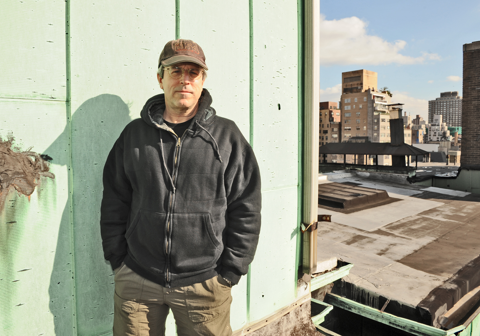 photo of rene balcer